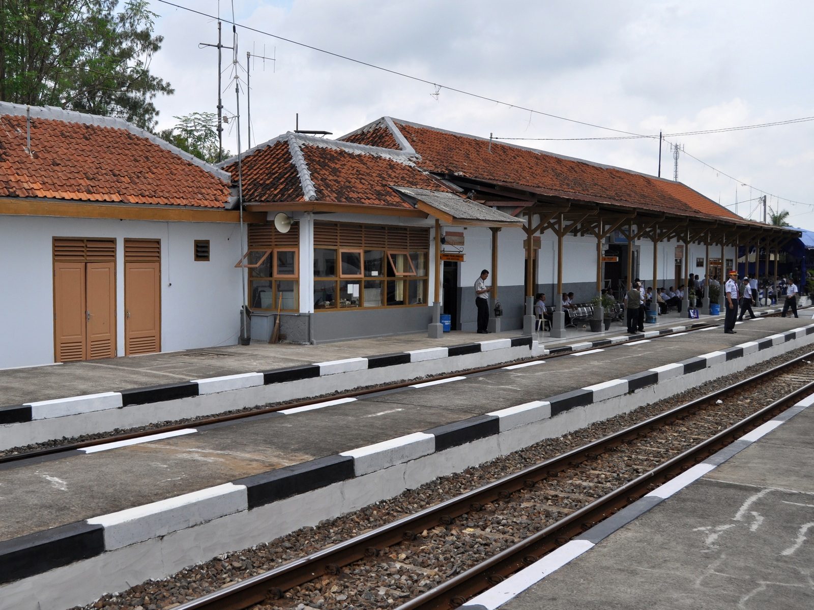 Arjawinangun train station in West Java, Indonesia